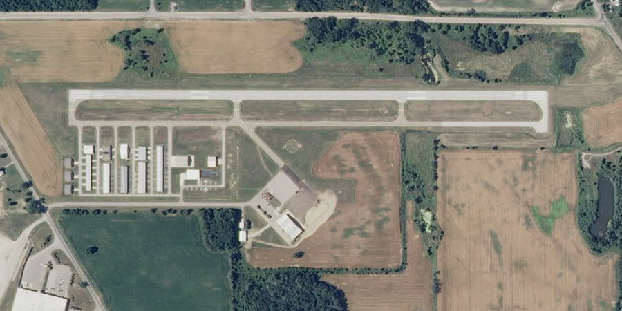 USGS orthophoto of Mason Jewett Field, an airport in Mason, Michigan, United States - April 2007. Scale 1:9,028